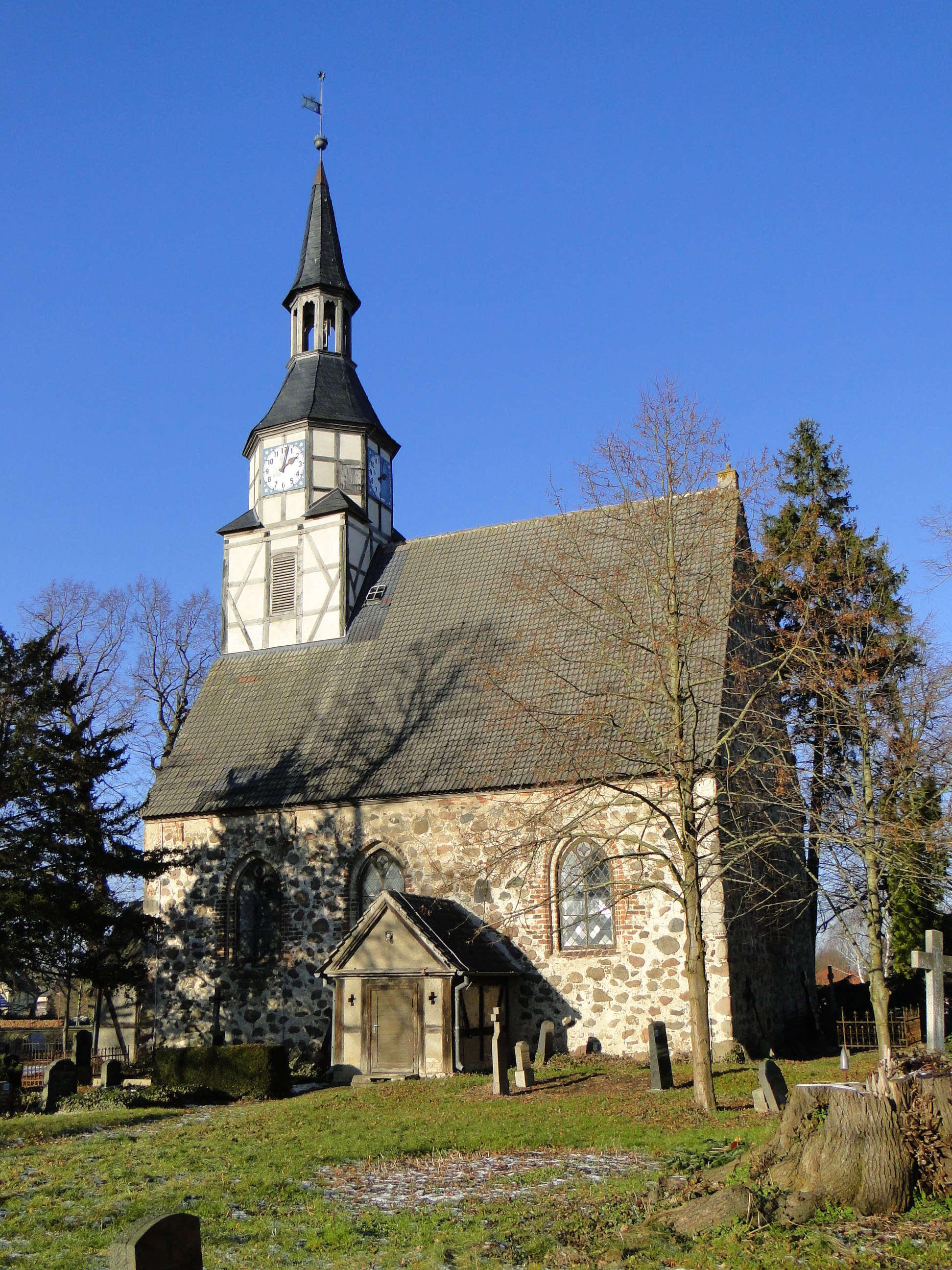 Church in Schwichtenberg, district Mecklenburg-Strelitz, Mecklenburg-Vorpommern, Germany